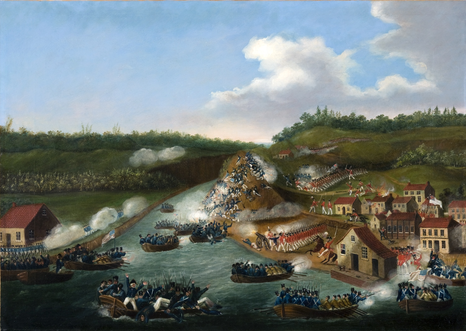 Depiction of the Battle of Queenston Heights.